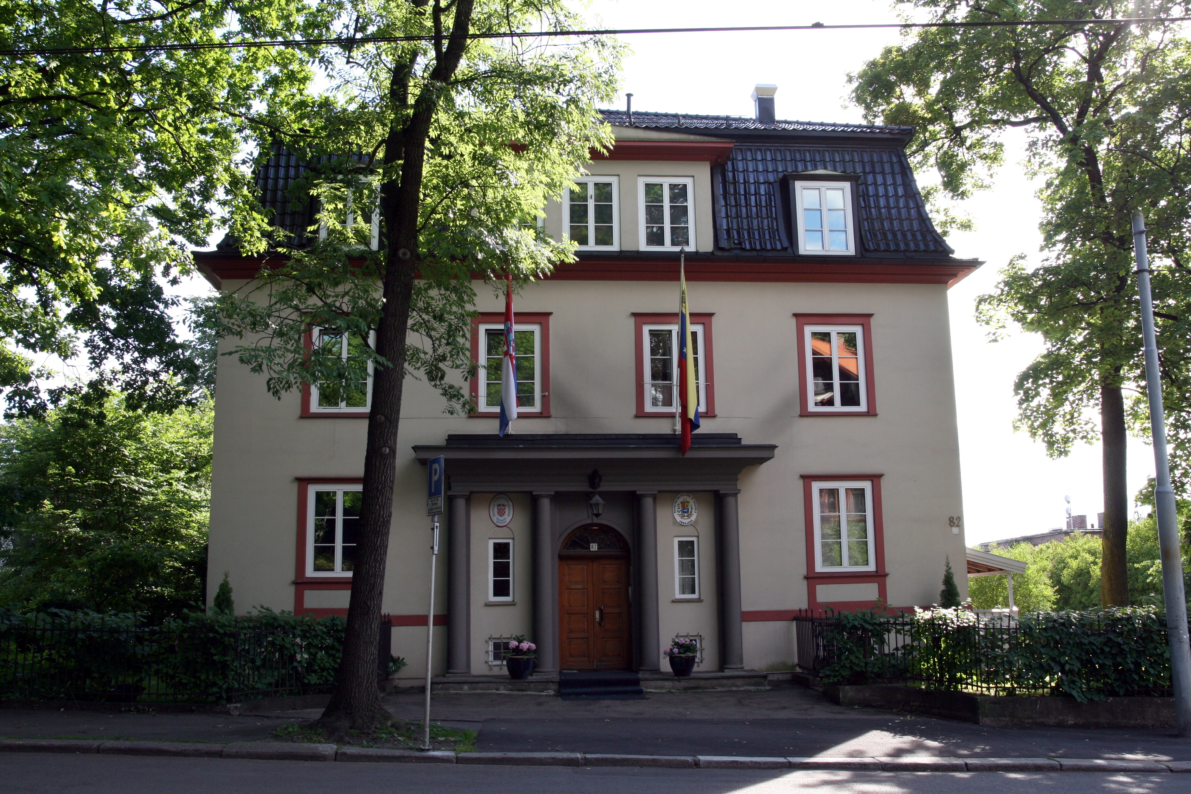 The embassy of Croatia and Venezuela, Oslo.